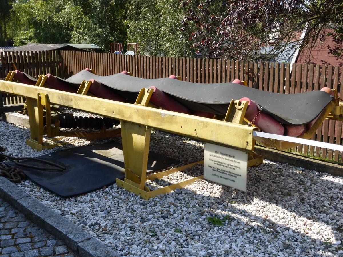 Conveyor belt from a open-pit lignite mine in Bavaria, displayed in Steinberg am See